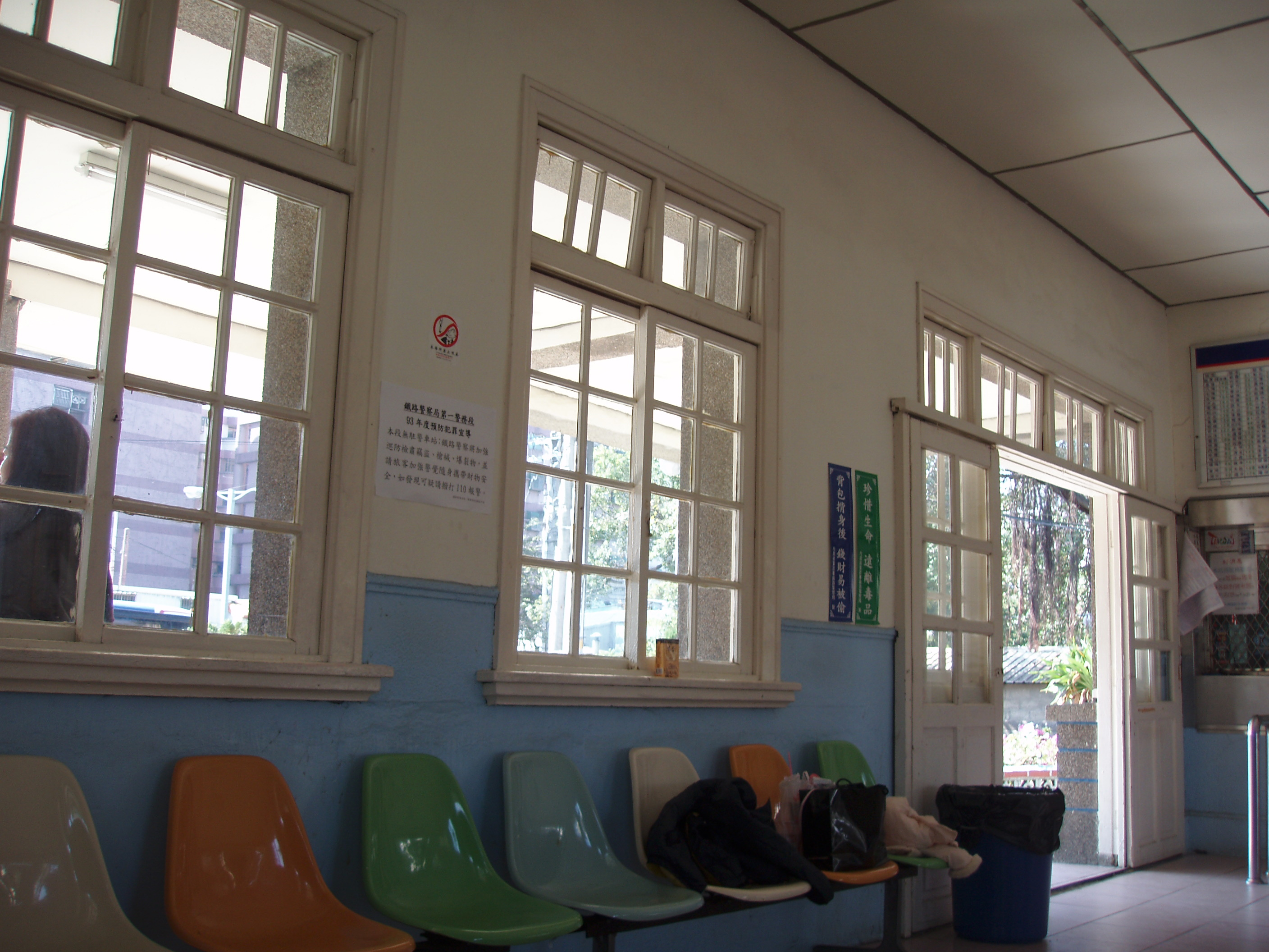 as shown.